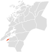 Map of Frosta, Nord-Trøndelag, Norway.